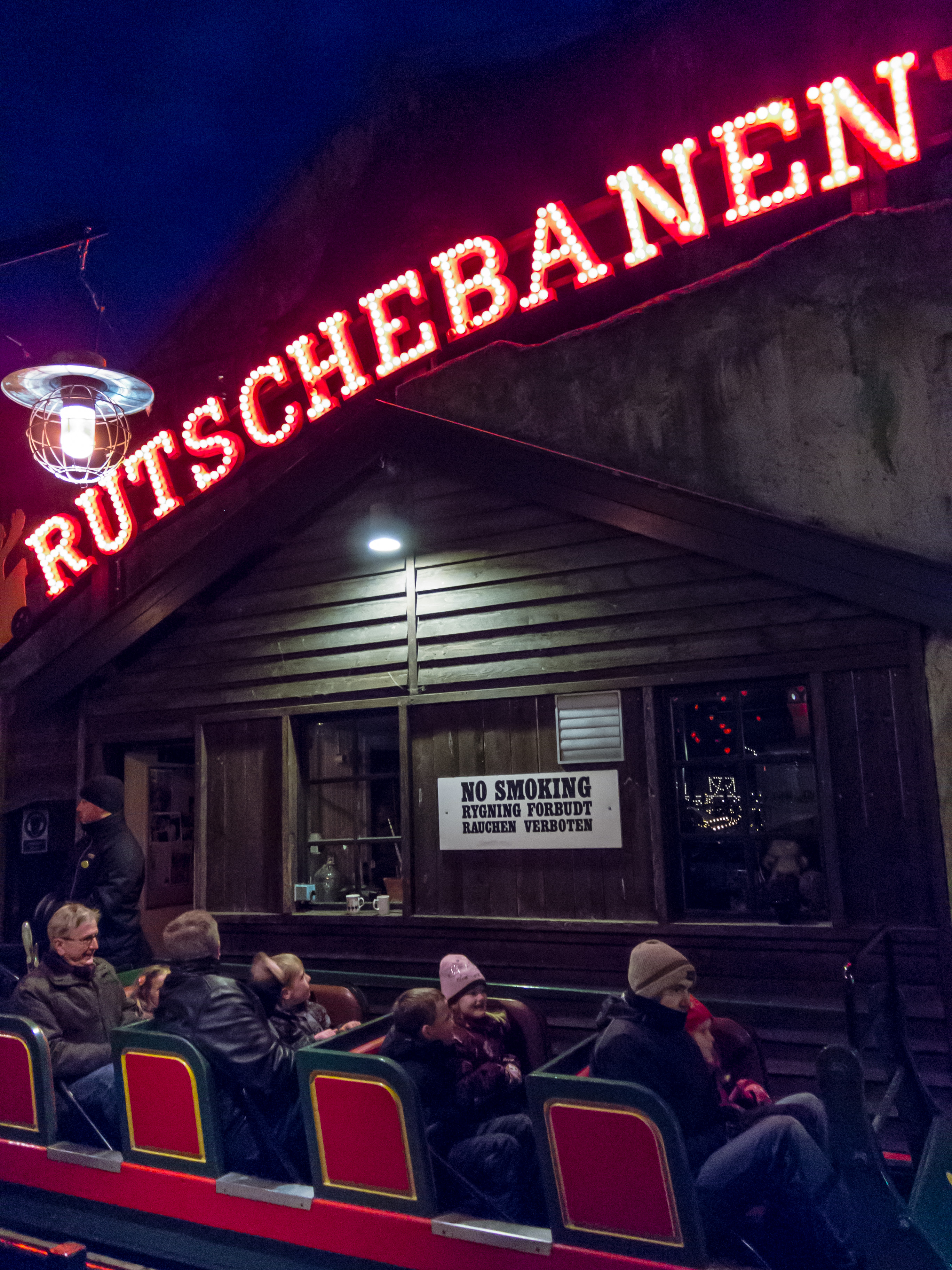 Wooden roller coaster (scenic railway roller coaster) Rutschebanen at Tivoli Gardens, Copenhagen